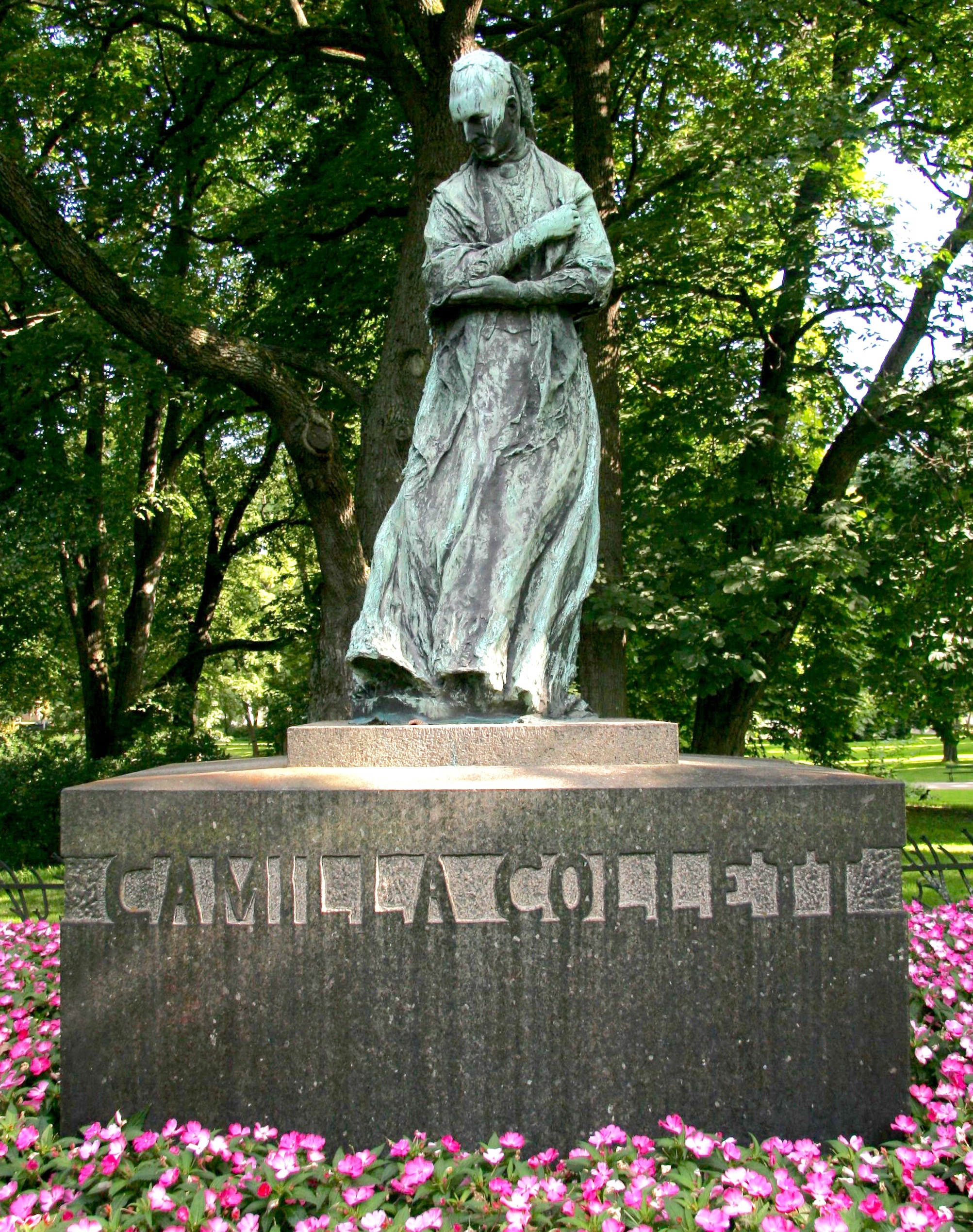 Brighter version of